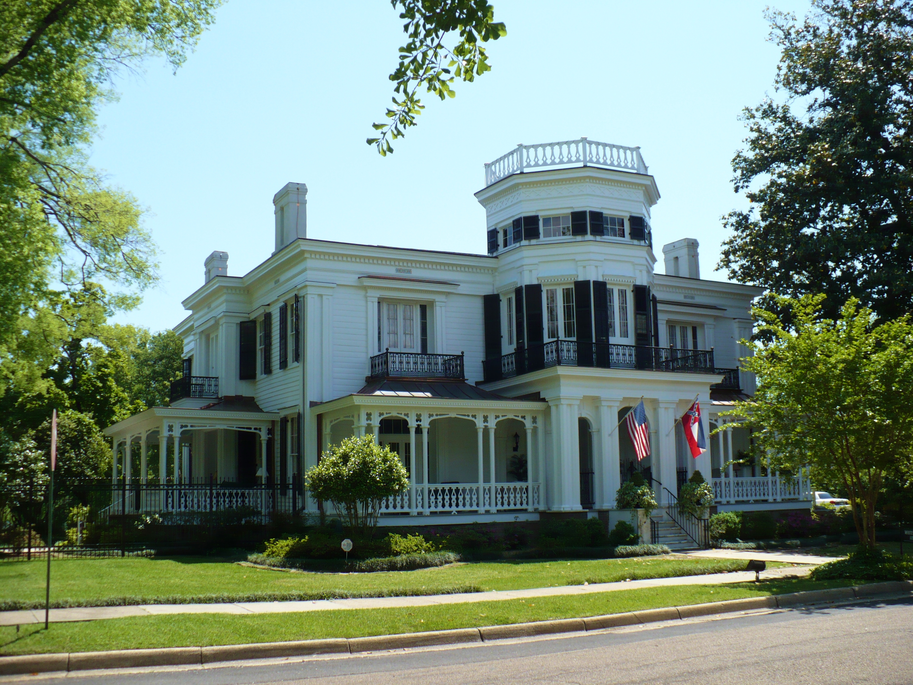 White Arches, a.k.a. the Harris-Banks House, in Columbus, Mississippi. Built circa 1857.